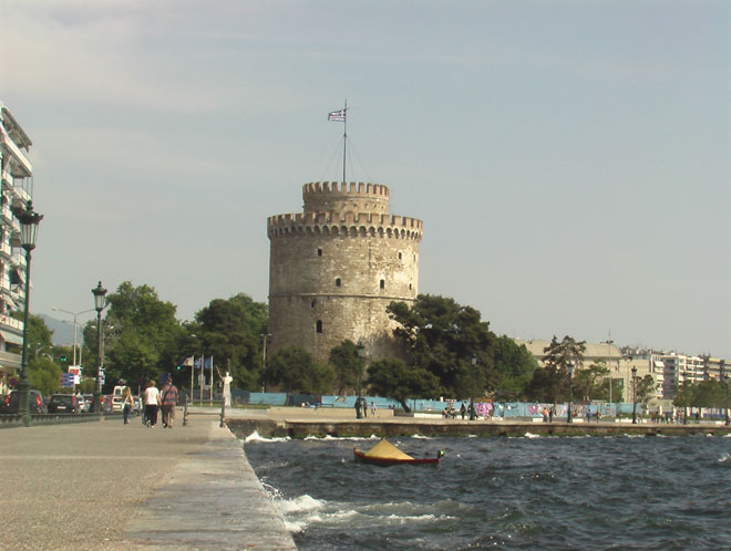 Thessaloniki_fortress, Credit: Courtesy of Arie Darzi to memorialize the Jewish community in Greece